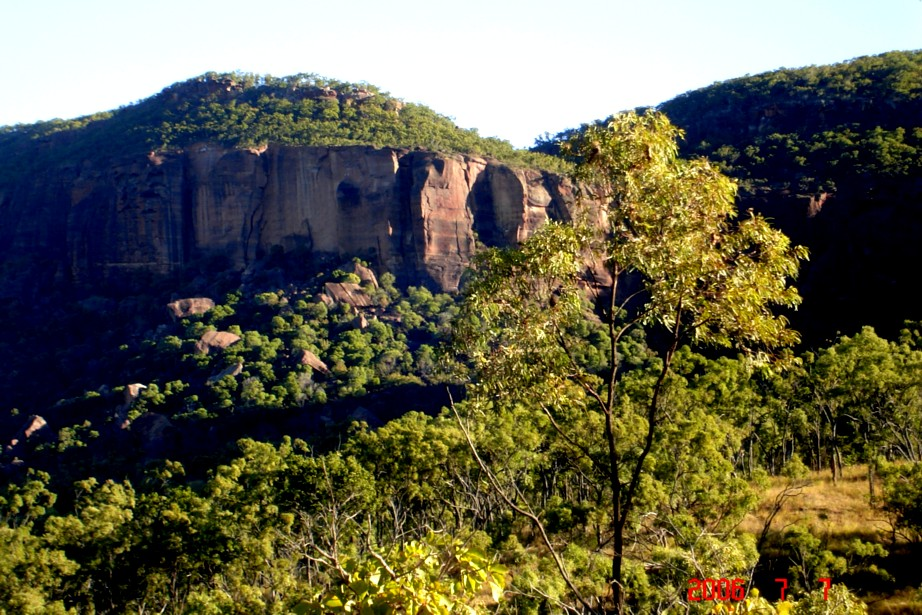 Photo of Ngarrabullgin's escarpment, taken by Bruce White (myself), July 2006